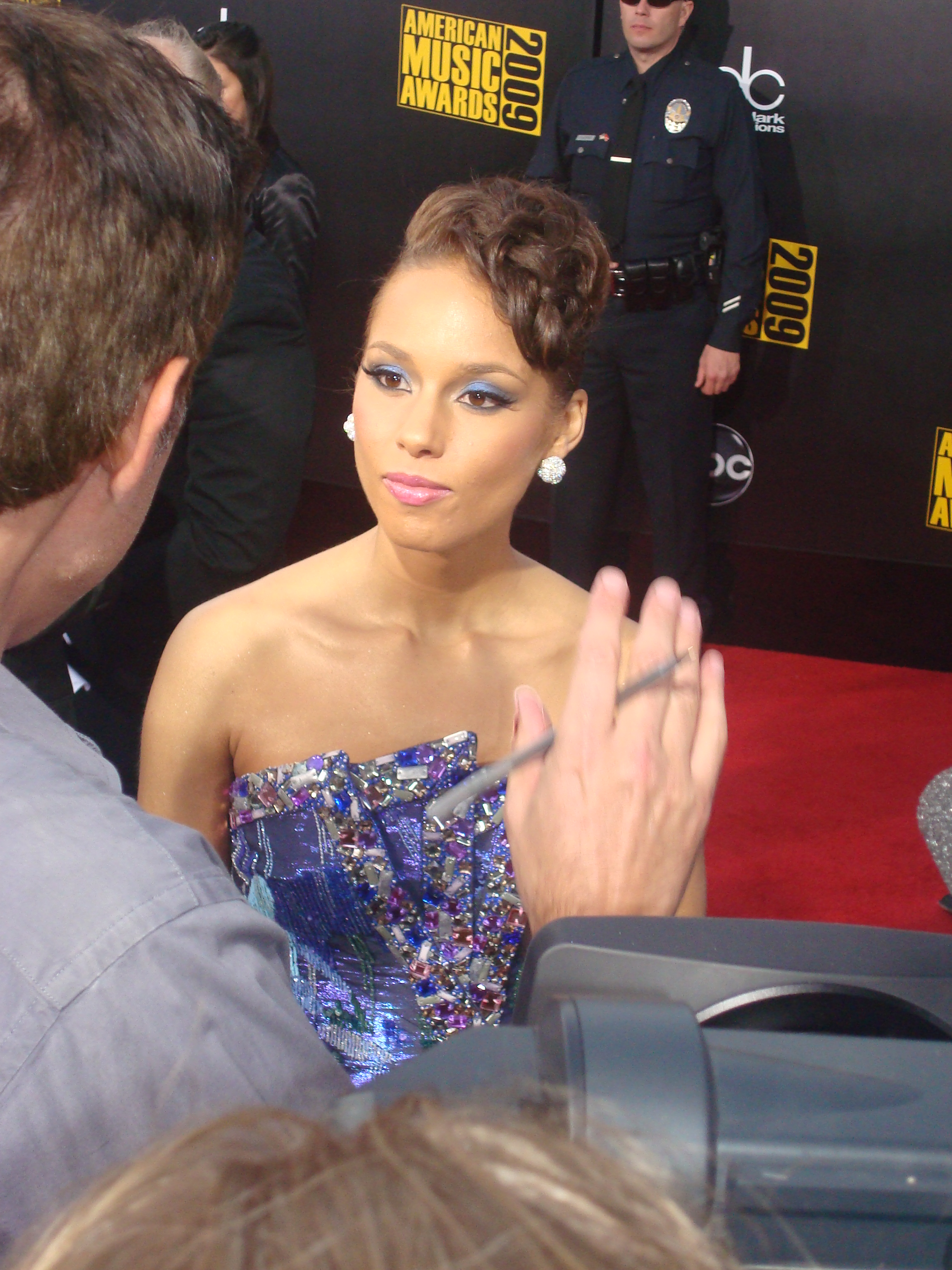 Alicia Keys at the 2009 American Music Awards Red Carpet